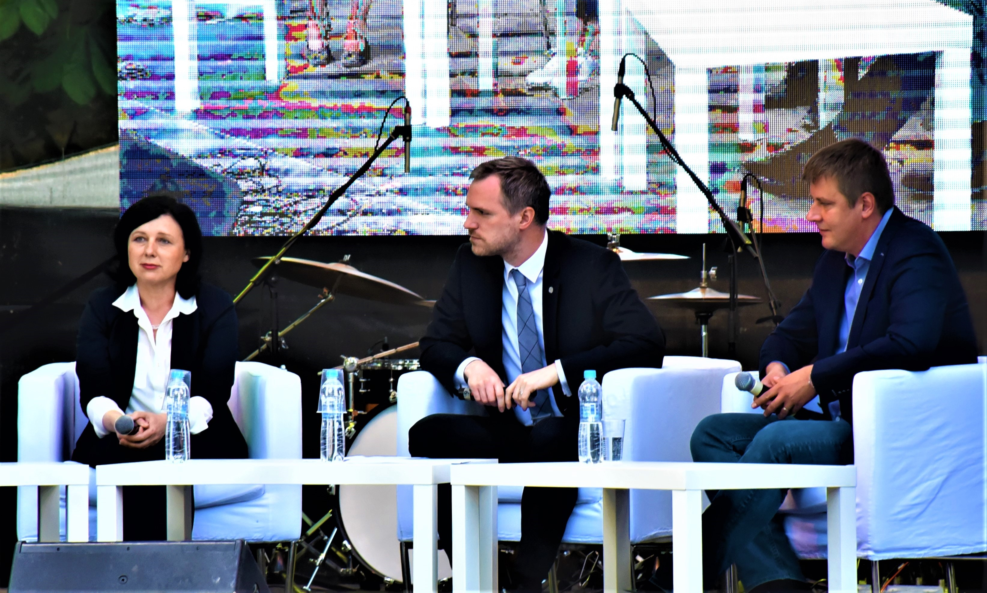 Věra Jourová, Zdeněk Hřib, Tomáš Petříček (Czech politicians)